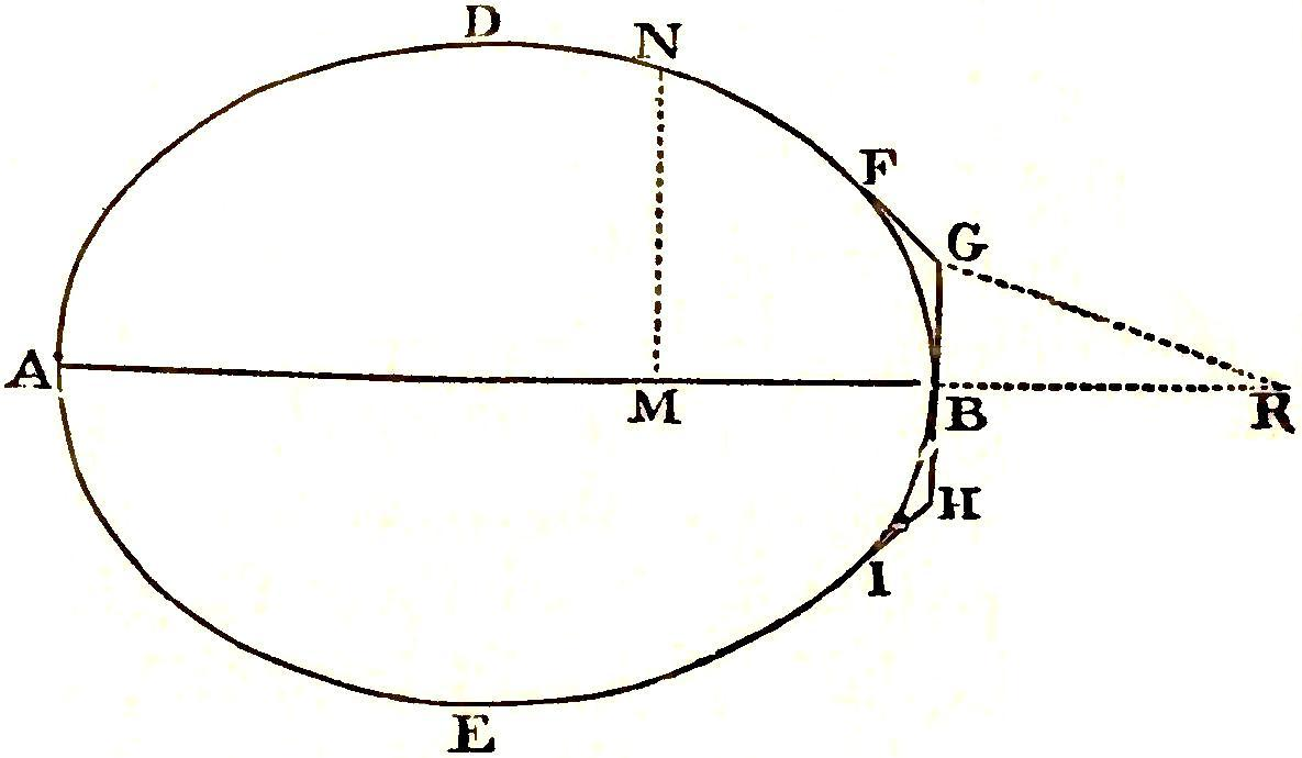 Solid of revolution of least resistance according to Newton